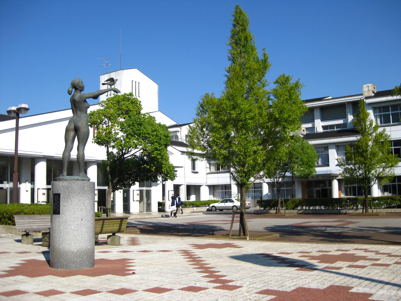 Toride-Shoyo High School, Ibaraki Prefecture, Japan